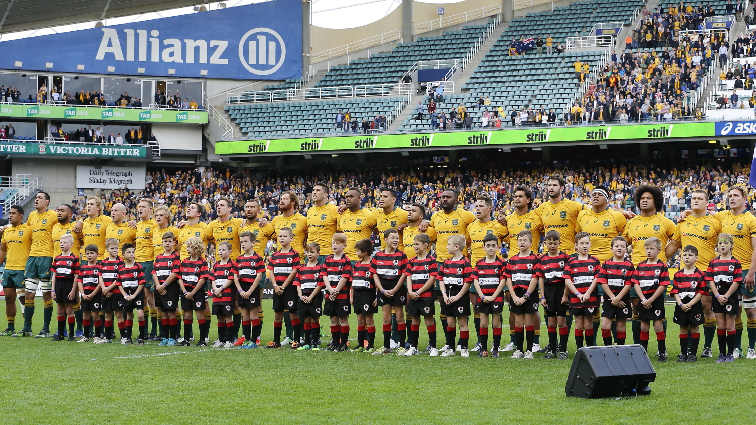 2017.06.17.15.06.26-AUSvSCO anthems-0001 The 2017 mid-year rugby union international, 17 June 2017, Australia vs Scotland at Allianz Stadium, Sydney